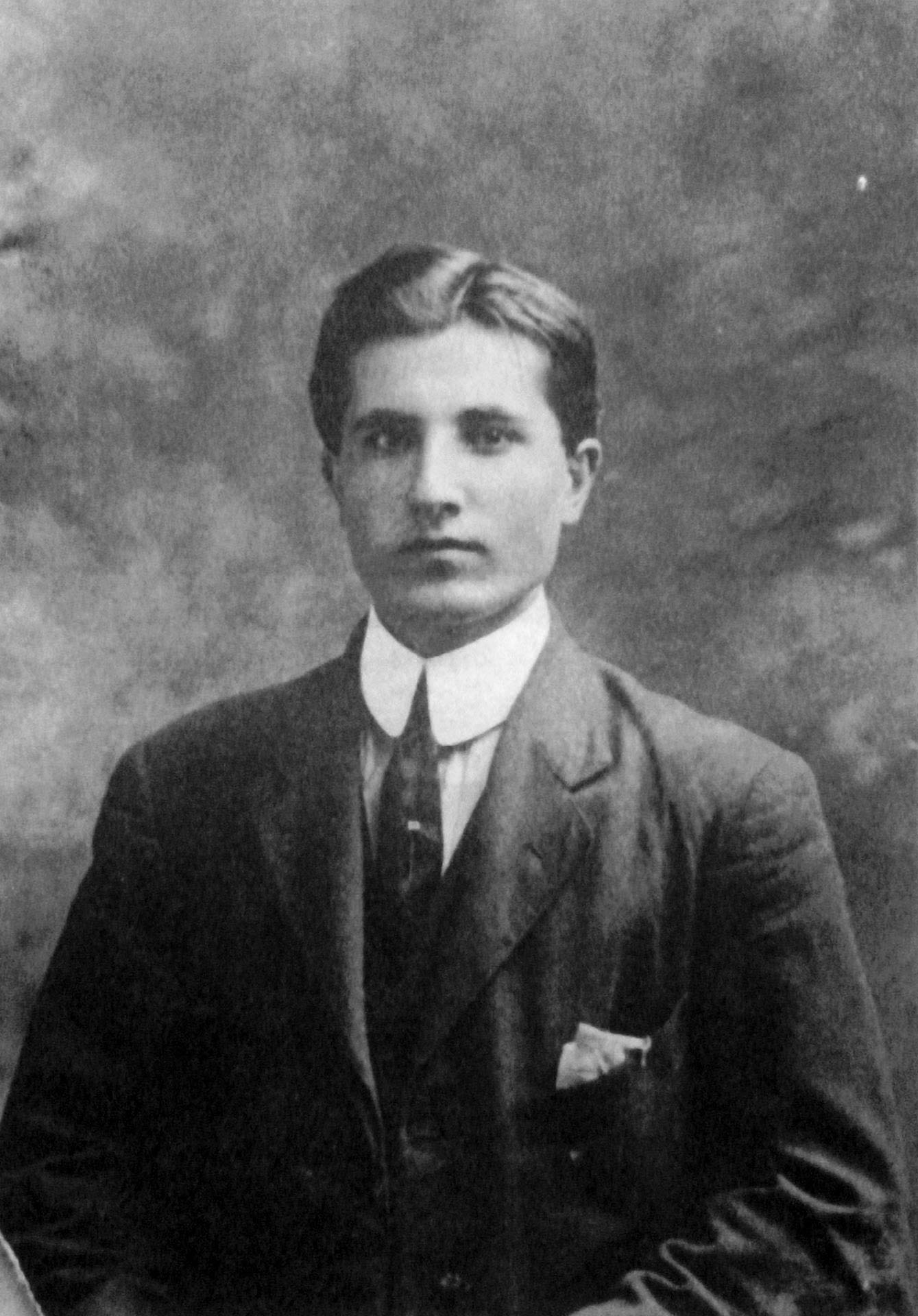 Howard Baskerville